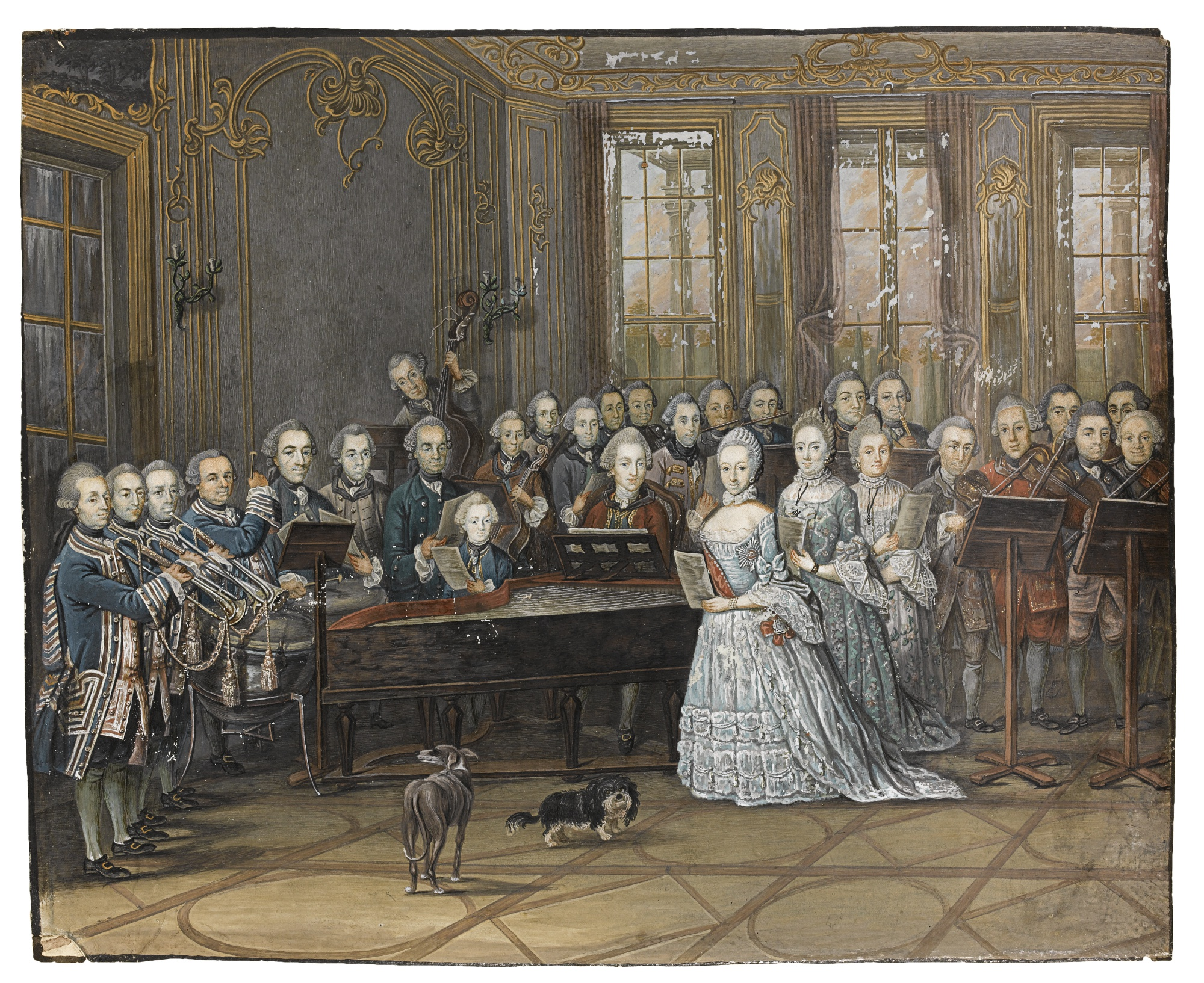 THE MUSICIANS AT THE DUCAL CHAPEL OF MECKLENBURG-SCHWERIN IN 1770, BY LEOPOLD AUGUST ABEL, a gouache finely painted on vellum, with white highlighting, with a contemporary inscription on verso ("Peint. par L:A[:] Abel.1770.") written in brown ink 19.5 x 24cms, probably painted at Ludwigslust, 1770